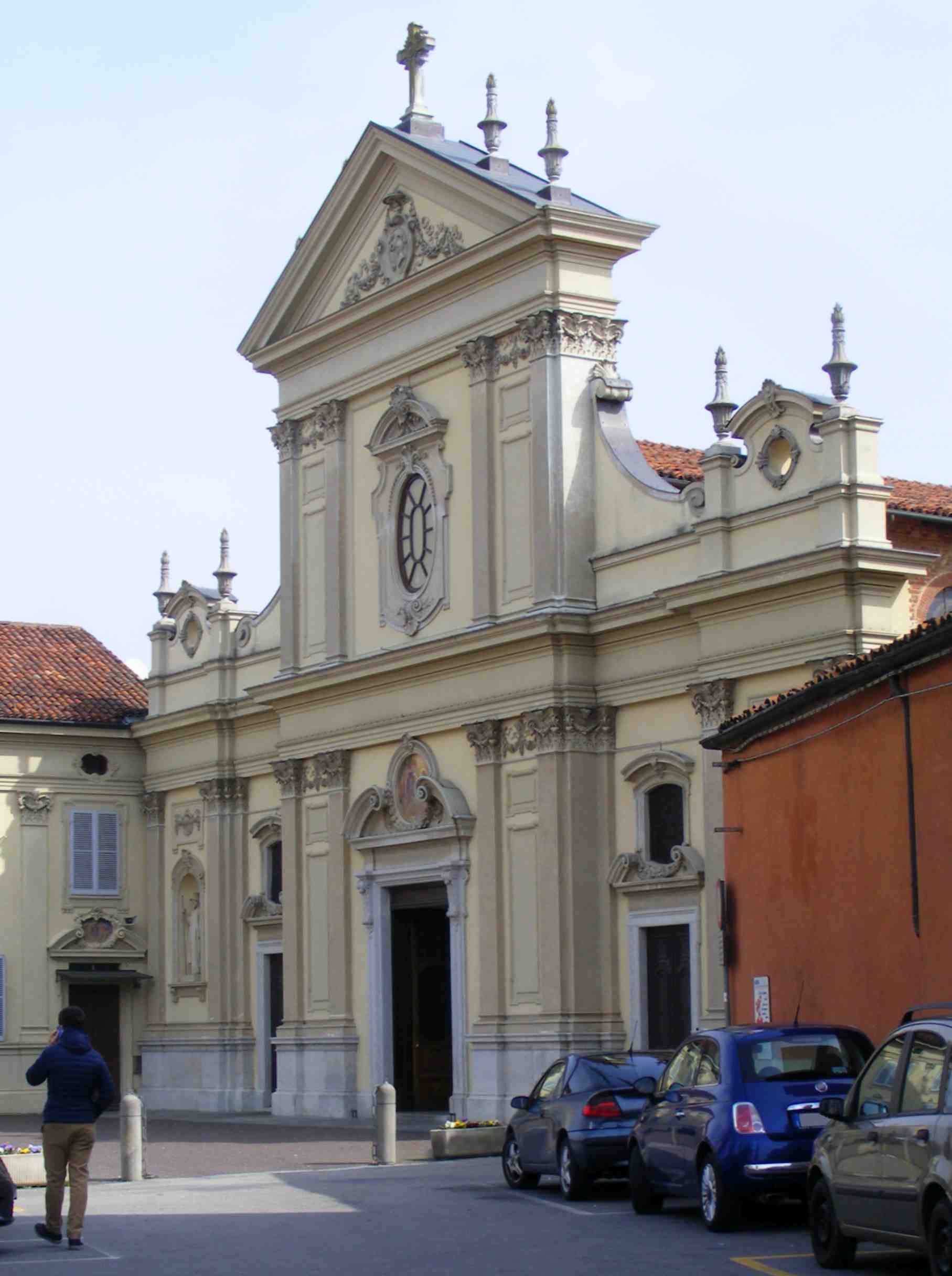 Poirino (TO, Italy): Santa Maria Maggiore parish church